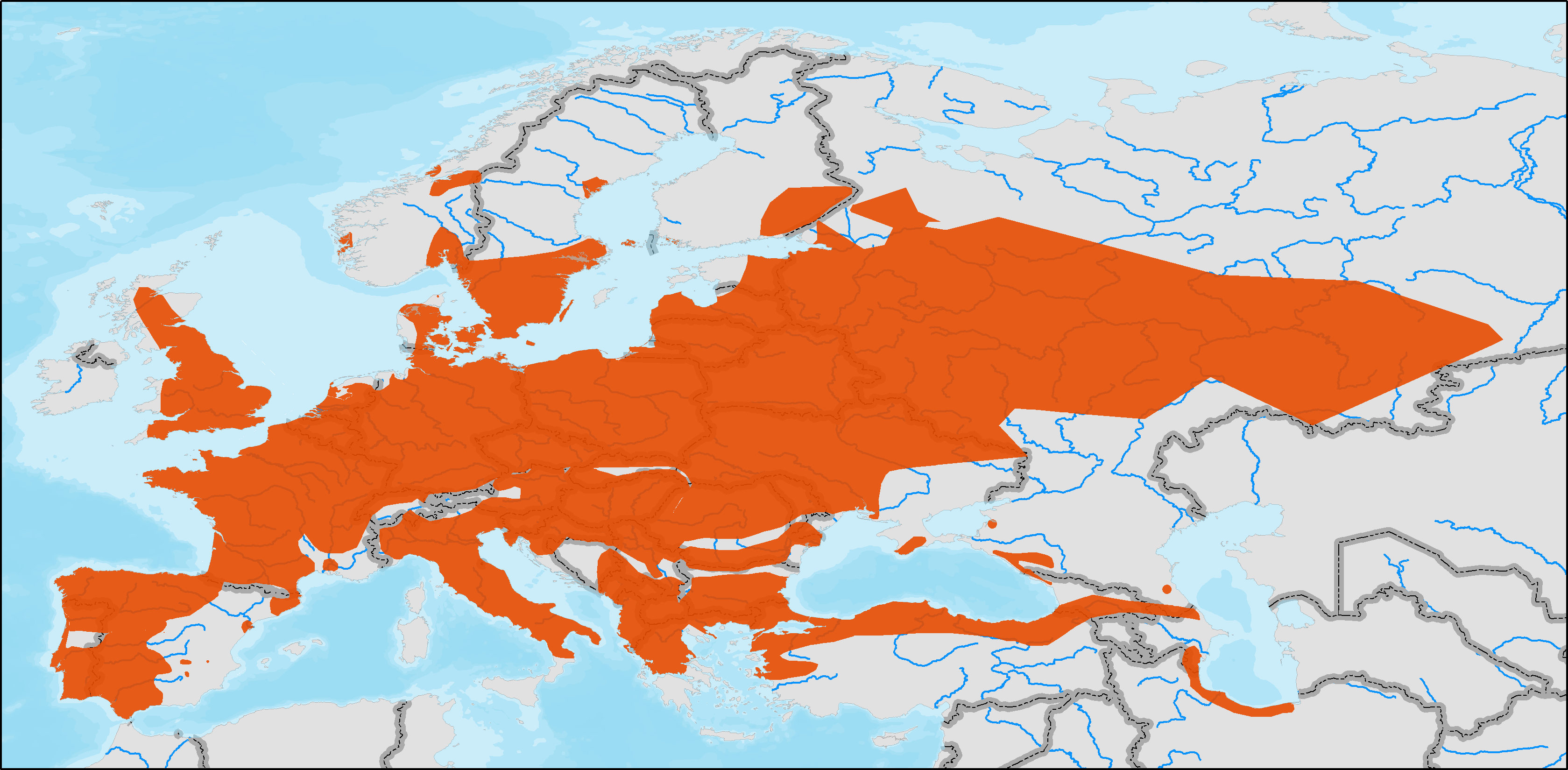 Spatial distribution of Triturus, based on data from IUCN red list. Includes Triturus marmoratus, Triturus pygmaeus, Triturus cristatus, Triturus carnifex, Triturus dobrogicus and Triturus karelinii.